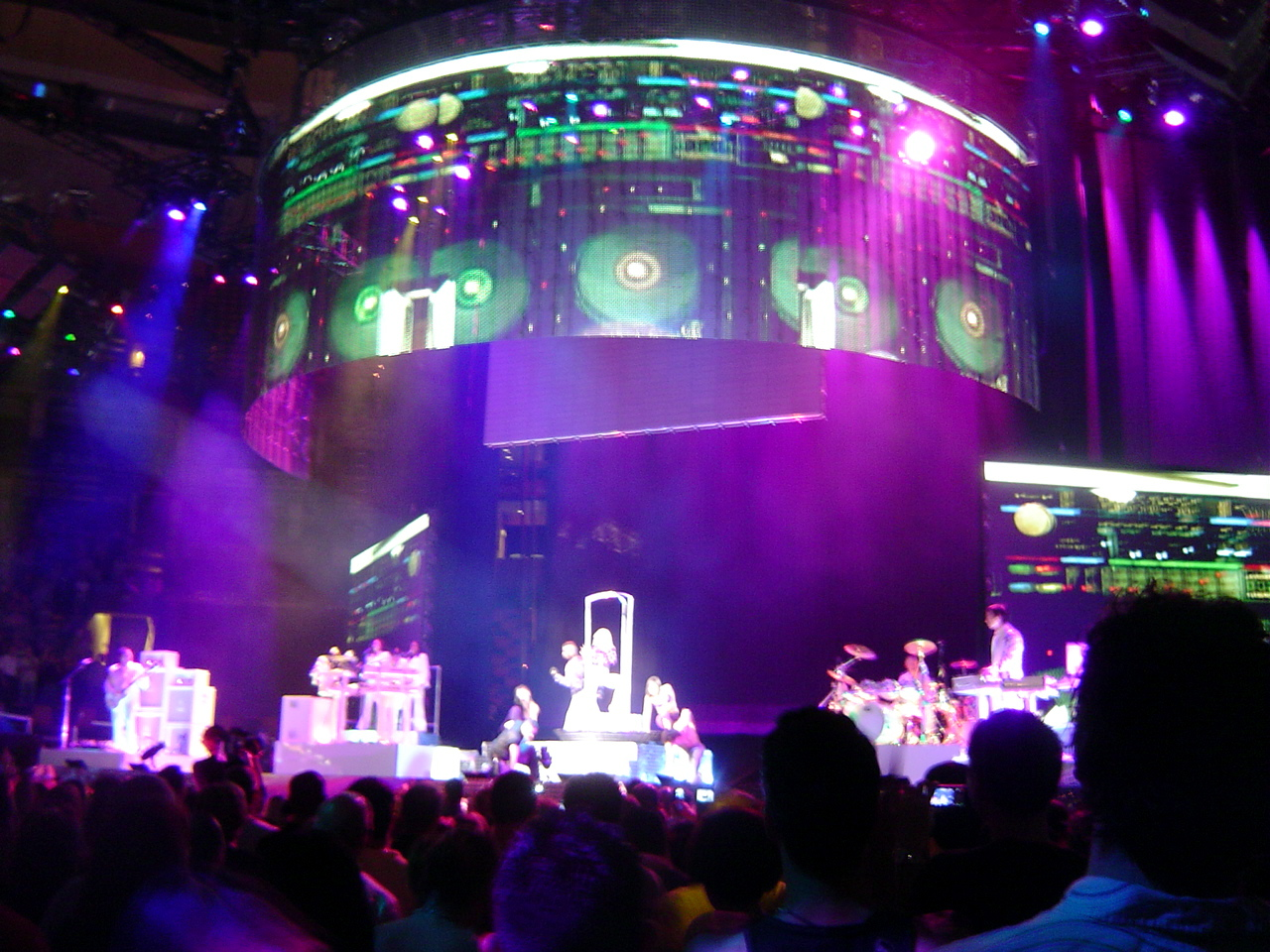 Madonna performing Hung Up on the Confessions Tour